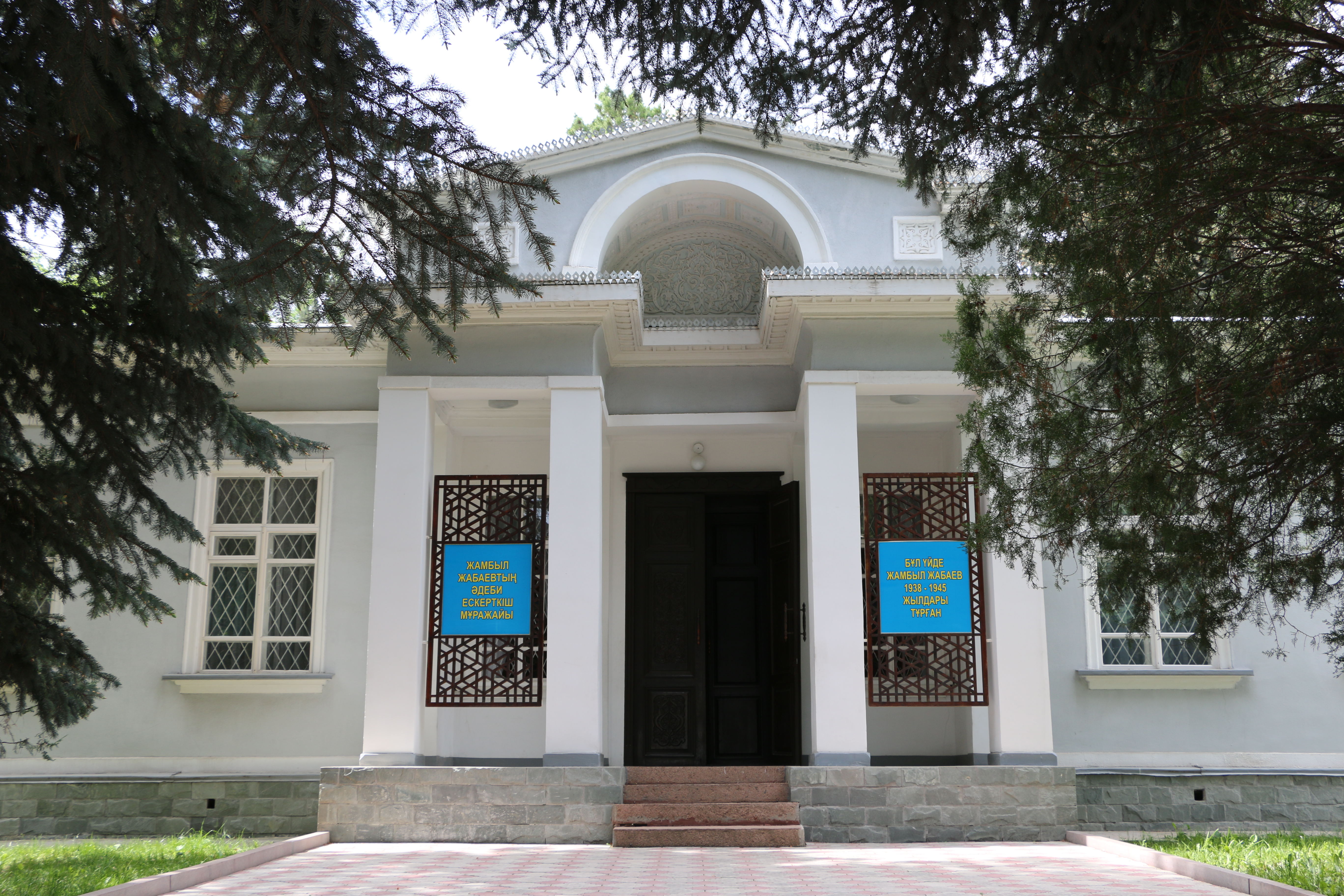 Zhambyl Museum